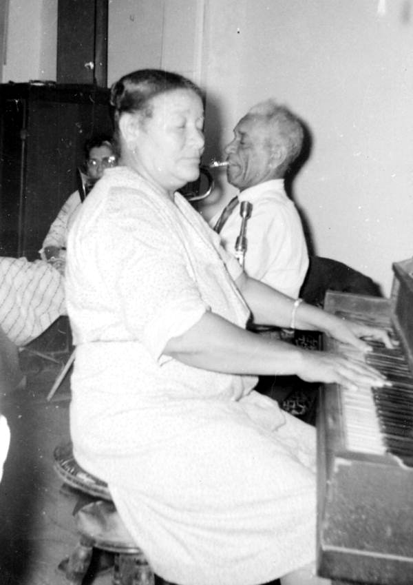 Portrait of Billie Goodson Pierce playing the piano with her husband, trumpeter De De Pierce, in the background.